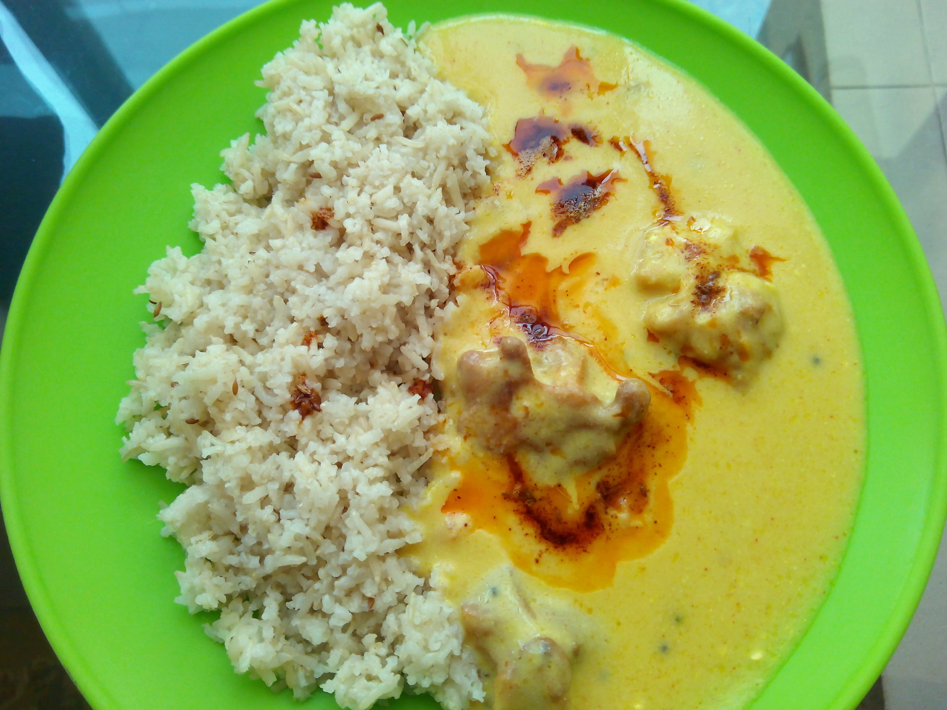 Kadhi Chawal from India. An Indian rice dish, consisting boiled rice and besan Kadhi